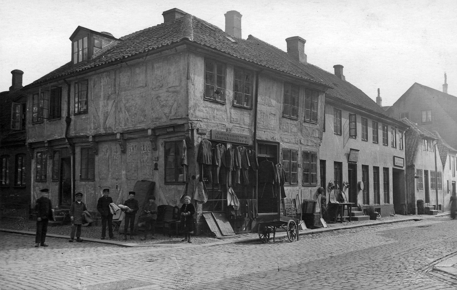 Hjørnet af Mejlgade og Havgyden. Fra 1895. Fra Aarhus Kommunes Biblioteker. Lokalhistorisk Samling